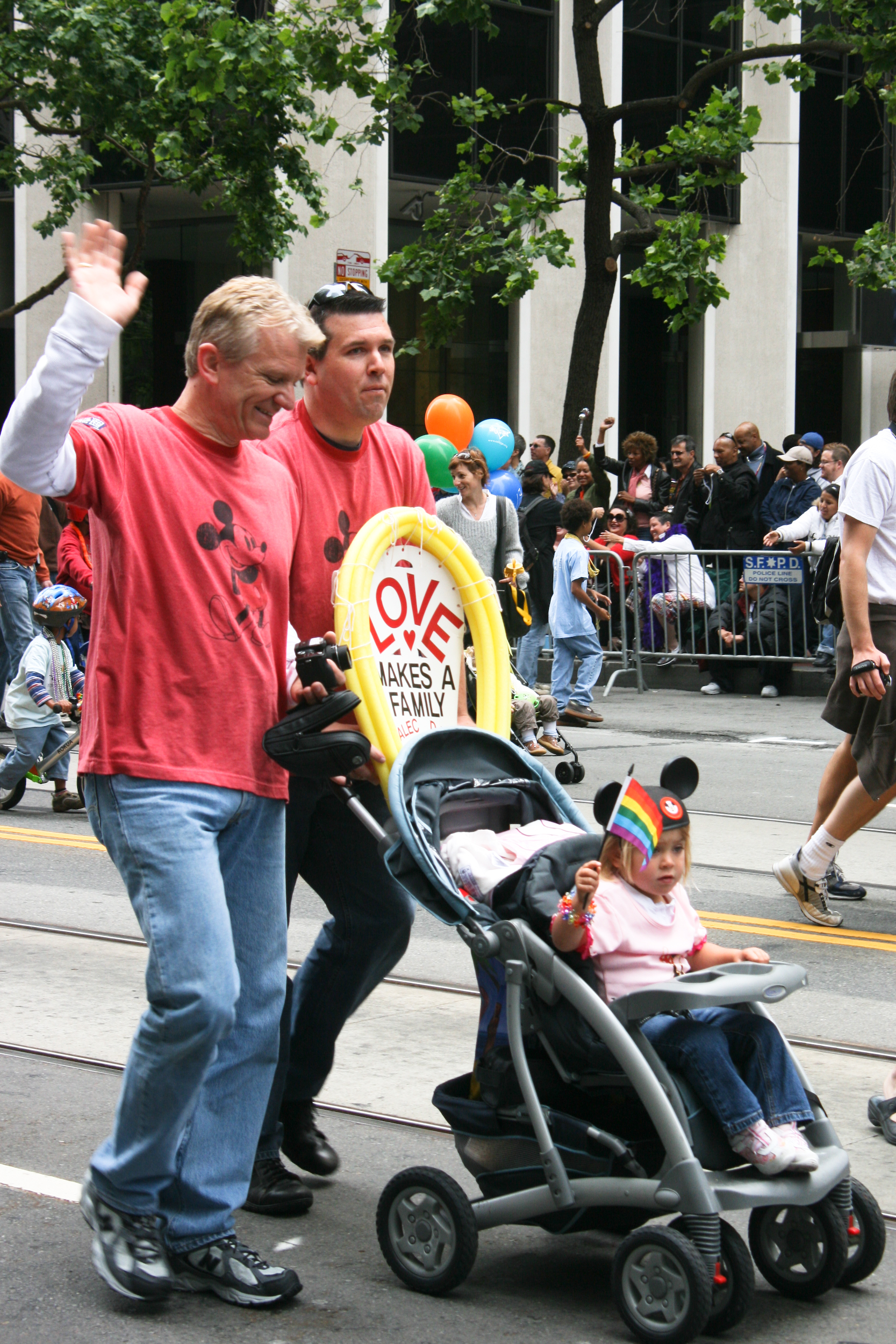 Gay couple with child at San Francisco Gay Pride